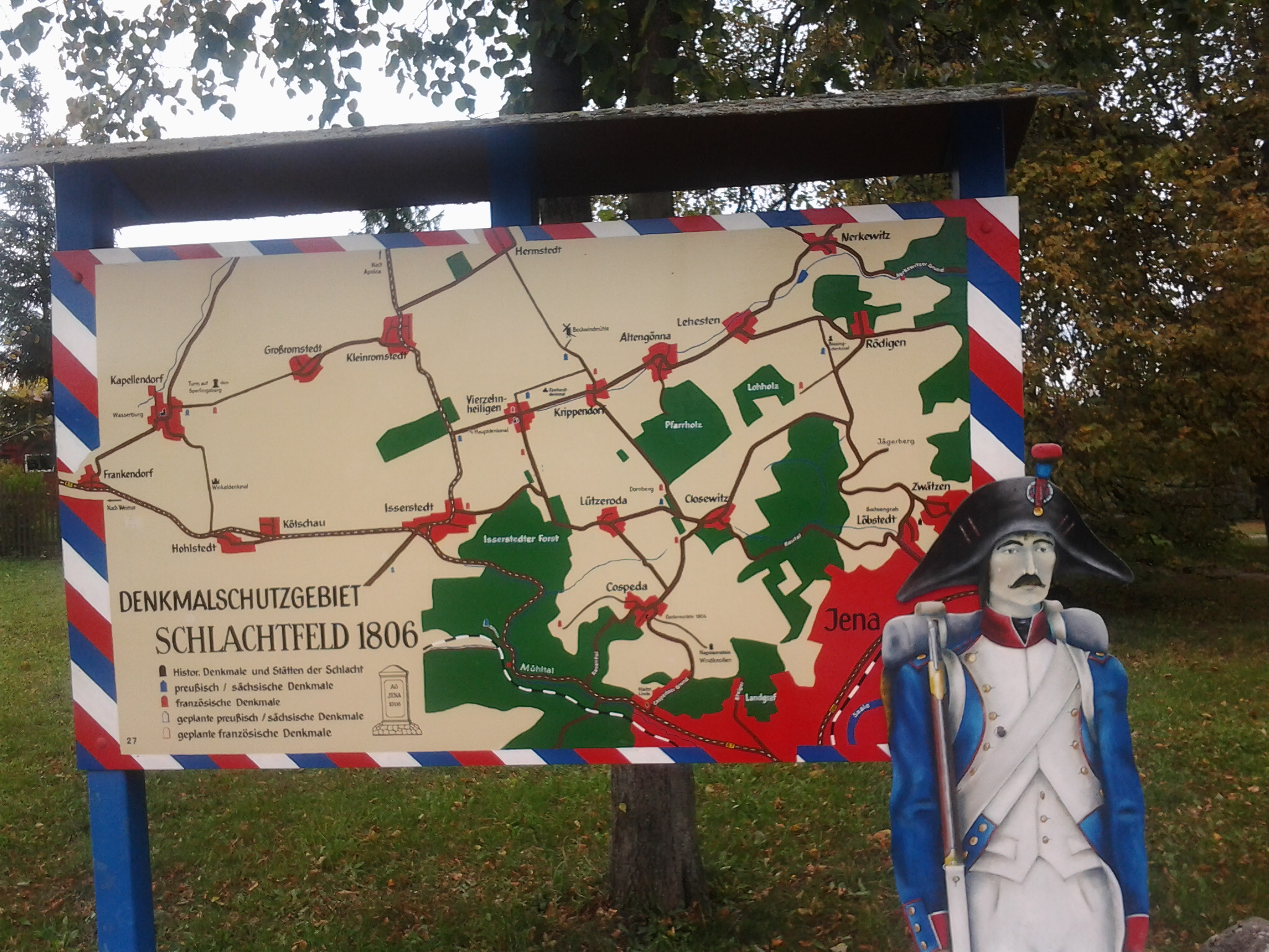 Wooden board showing the battlefield of Jena-Auerstedt